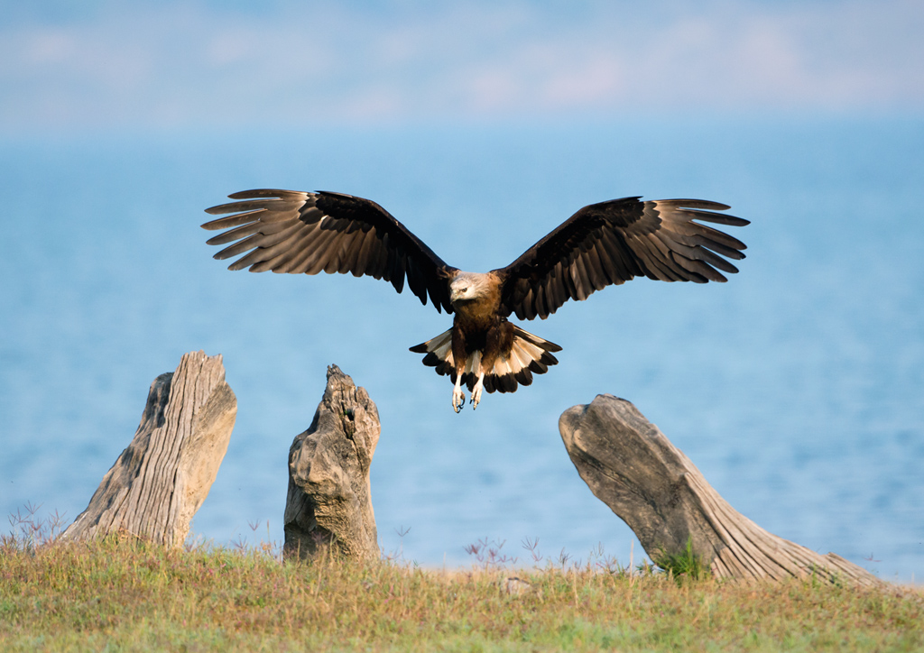 Haliaeetus leucorphus or Palls's Fish Eagle an inhabitant of rivers and water bodies of the Himalayan foothills displaying the characteristic white band on its tail. seen at Corbett National Park, Uttarakhand.